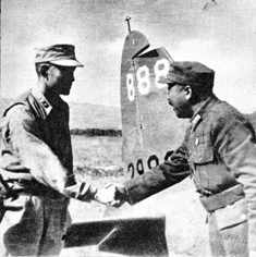 MUTUAL CONGRATULATIONS EXCHANGED BETWEEN GEN. WEI LIH-HUANG (RIGHT), COMMANDING GENERAL OF WEST YUNNAN WAR AREA AND GEN. SUN. (LEFT)